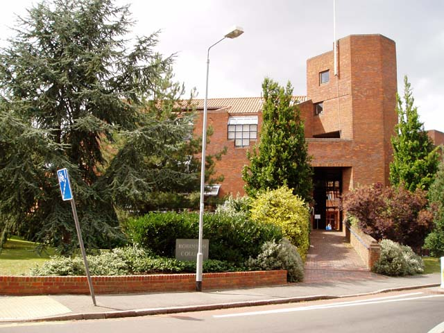 Robinson College. The newest of the Cambridge colleges, built in the 1970s, and noted for its unrelenting use of red brick. This is the main entrance on Grange Road.